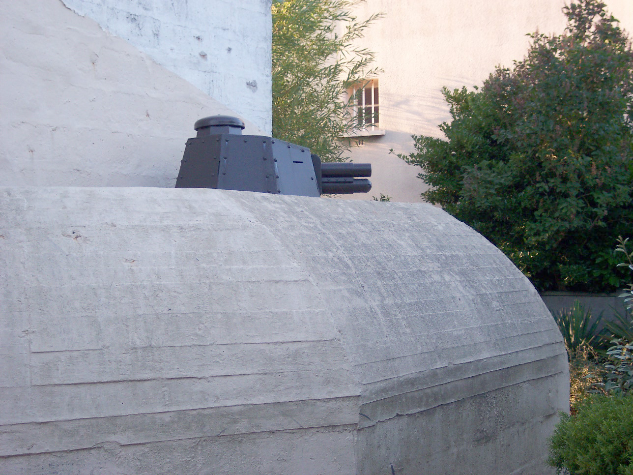 Ouistreham August 2005 Possibly a Renault FT-17 tank turret.